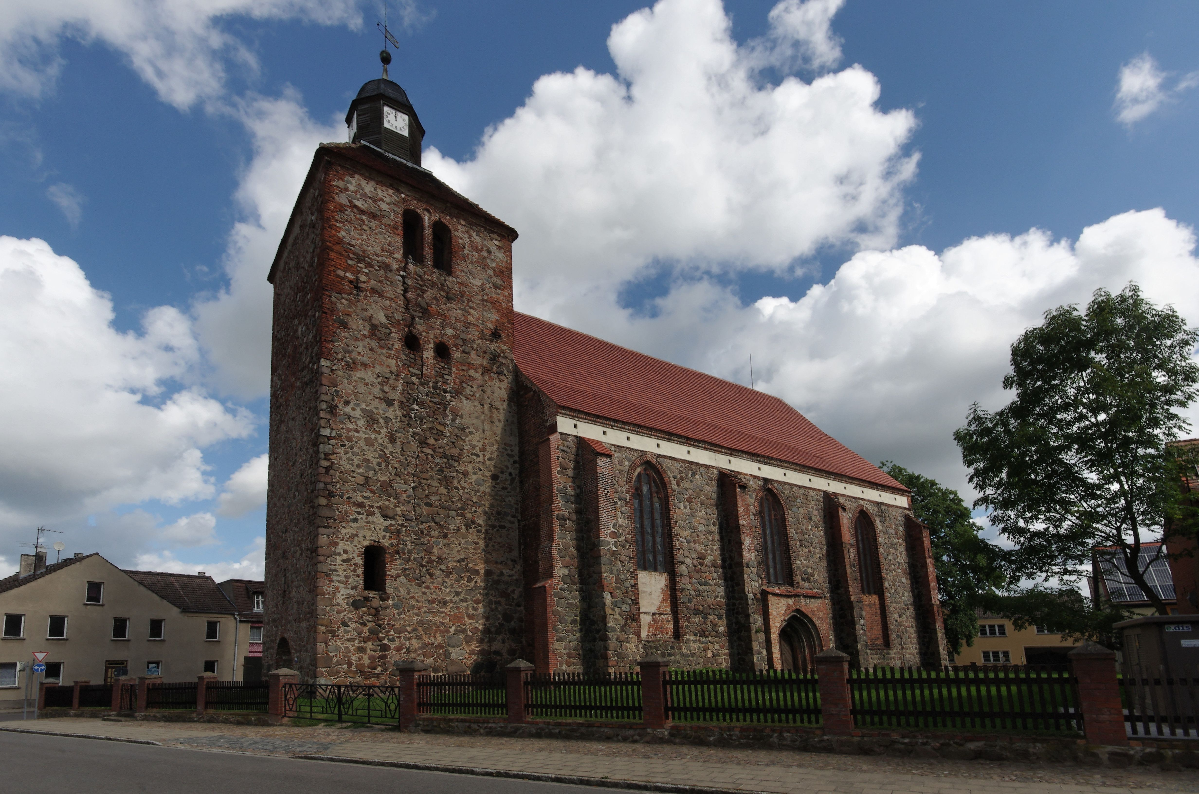 Church in Freyenstein, Wittstock municipality, Ostprignitz-Ruppin district, Brandenburg state, Germany